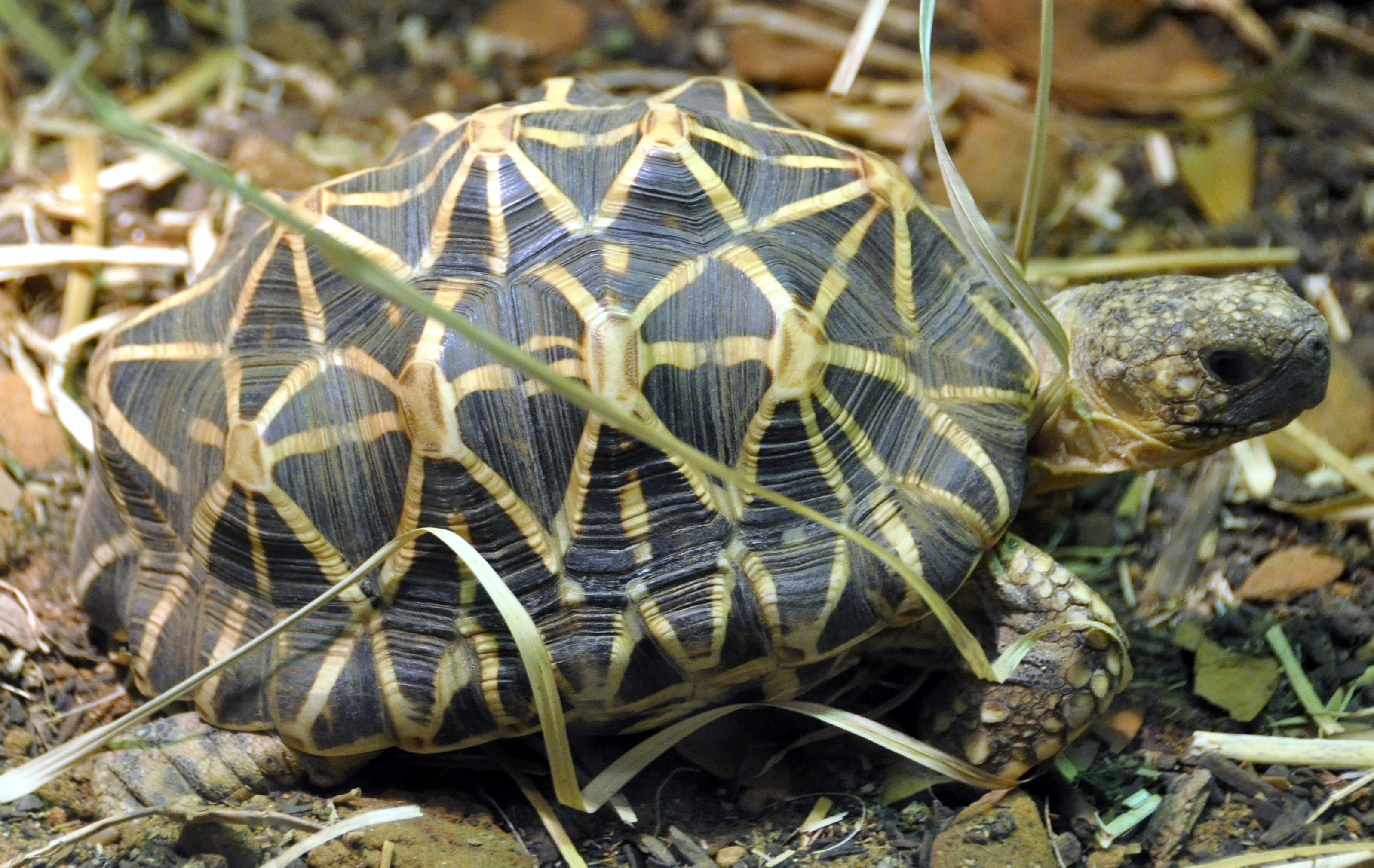 Indian start tortoise at the Houston Zoo